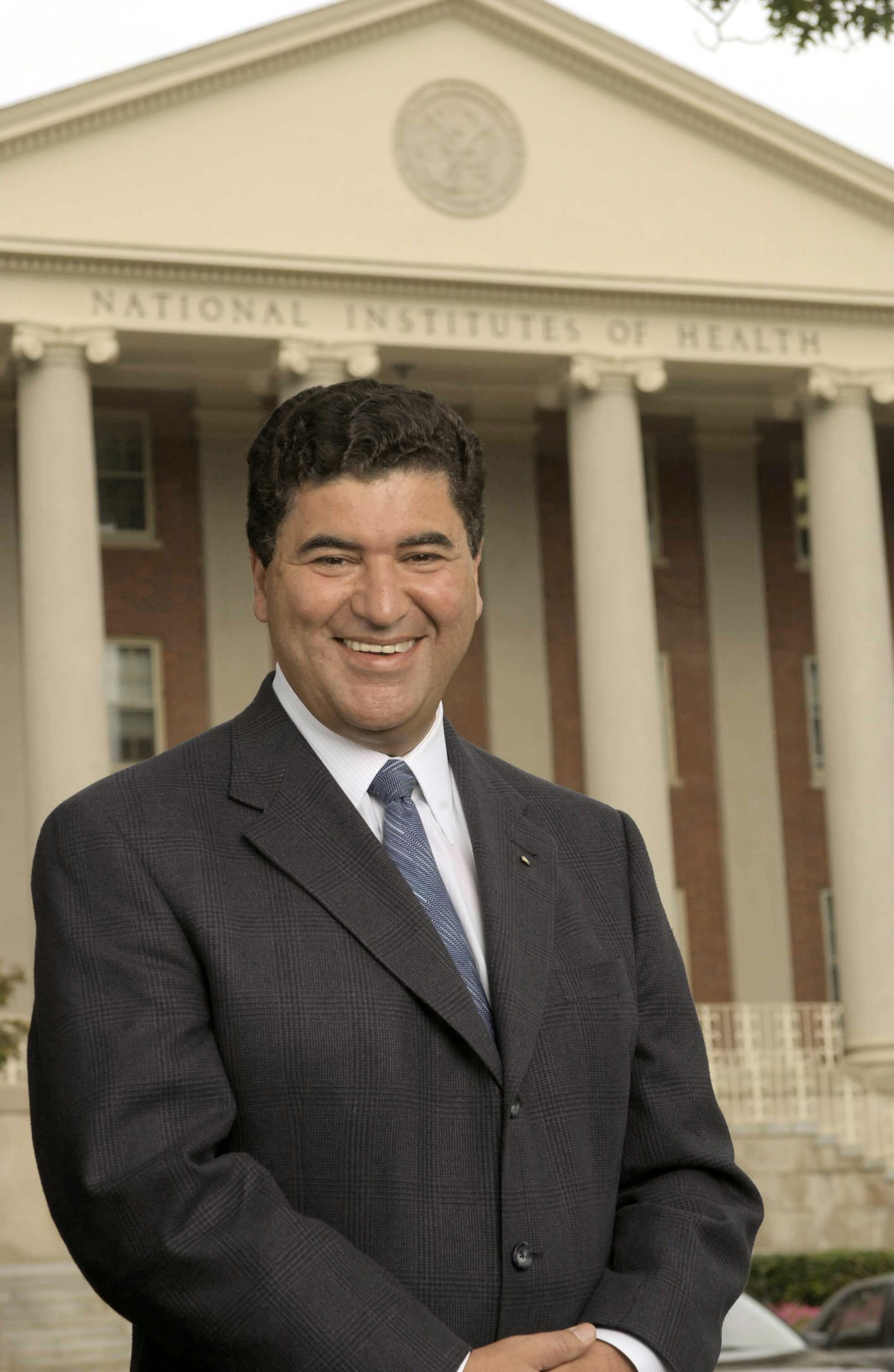 Zerhouni developed the "NIH Roadmap" in 2003 for medical research, a comprehensive plan to identify the major scientific opportunities and gaps in biomedical research.